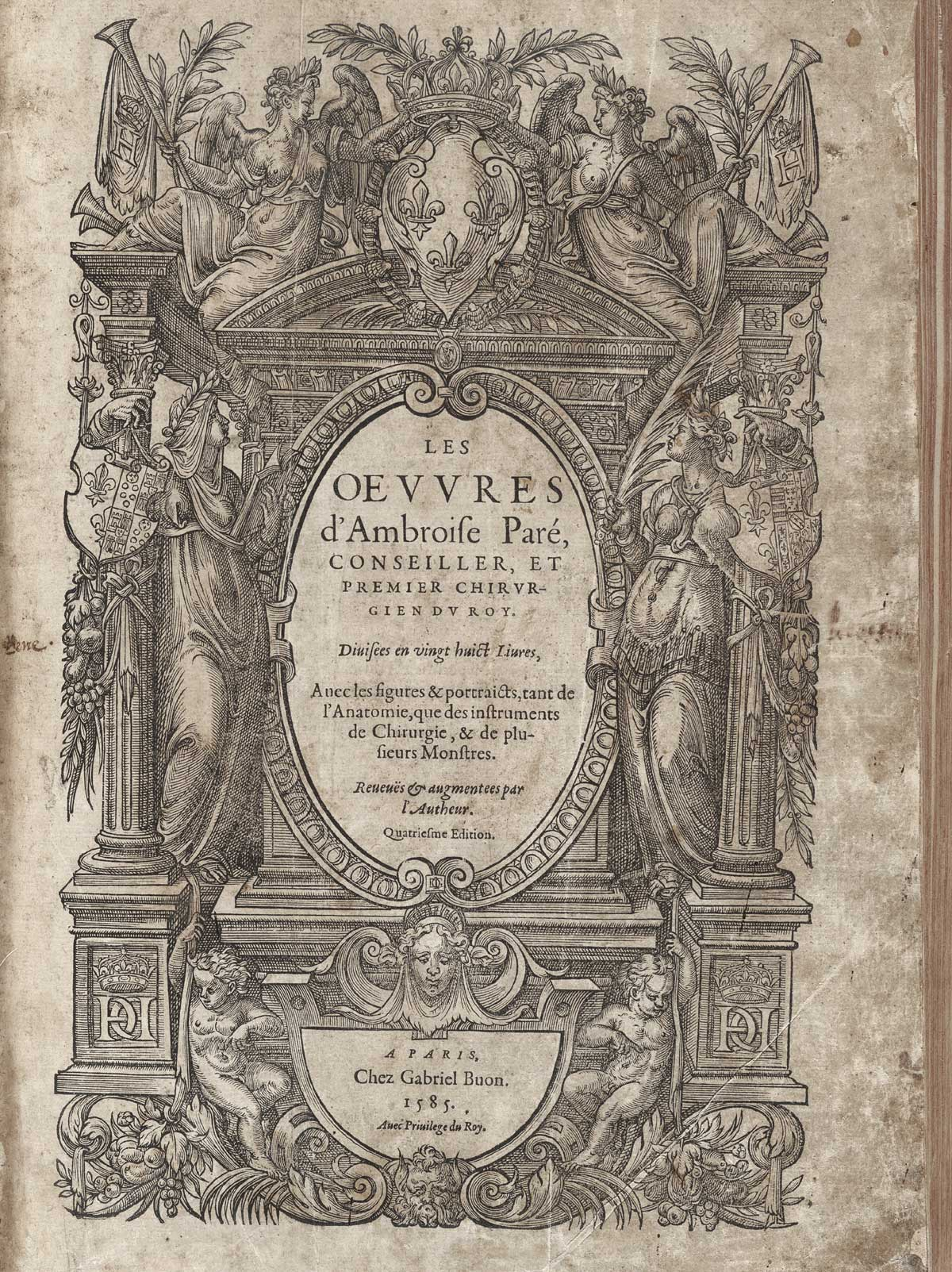 The title page of Ambroise Pare's Oeuvres. Part of the National Library of Medicine's "Turning the Pages" project that digitizes older medical texts that should no longer be physically handled.